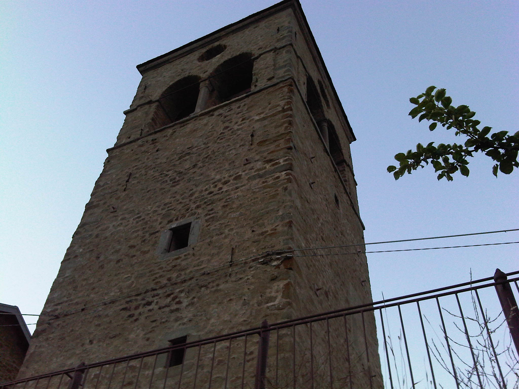 "Il Torrione", now a bell tower, was built in Sant'Andrea Pelago, Italy, by the Montegarullo family in the Middle Age.